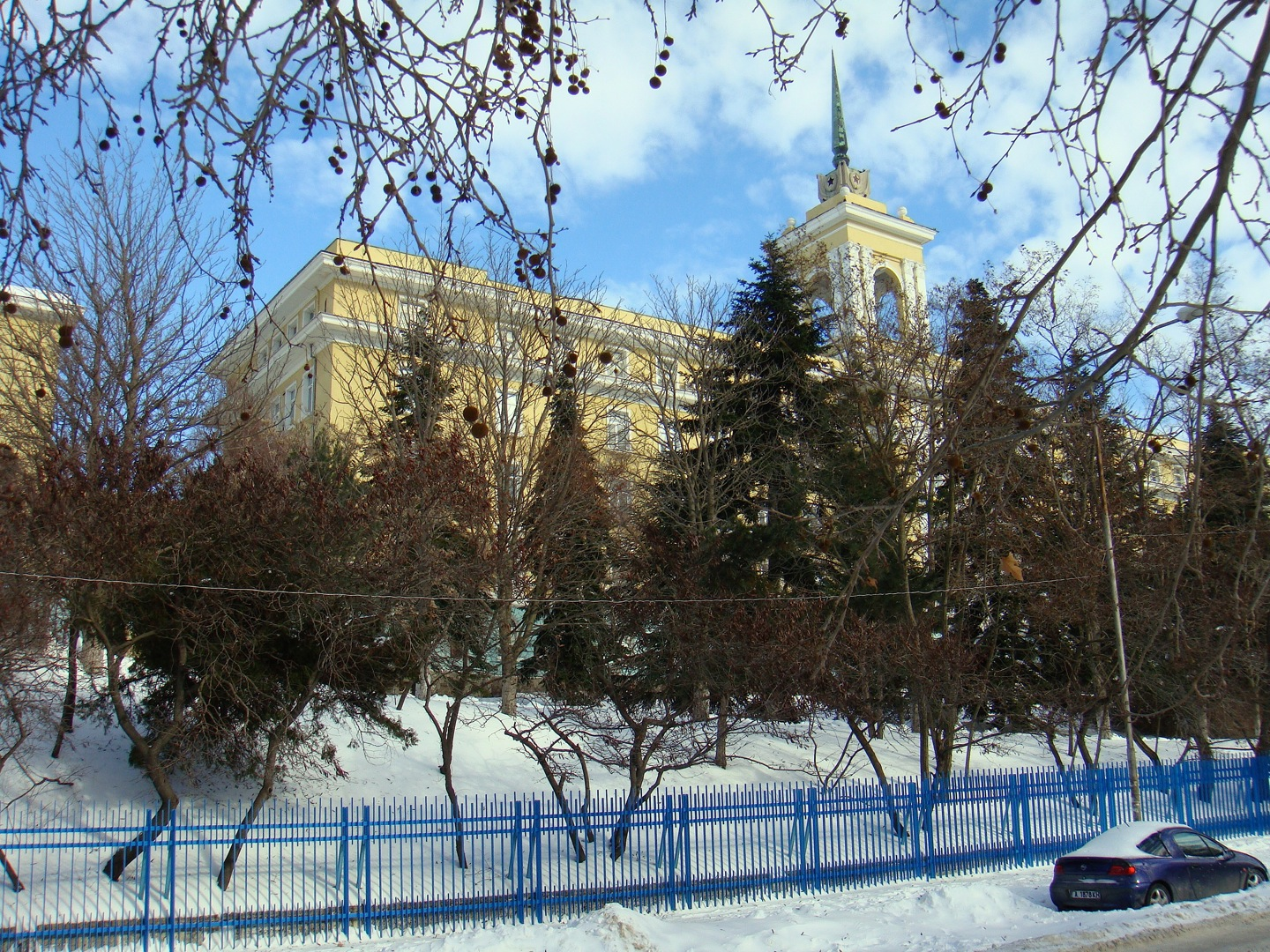 The bulgarian naval academy "Nikola Vaptsarov" in winter.